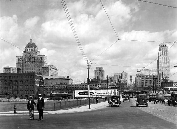 Looking north up Bay Street. (Toronto, Canada)